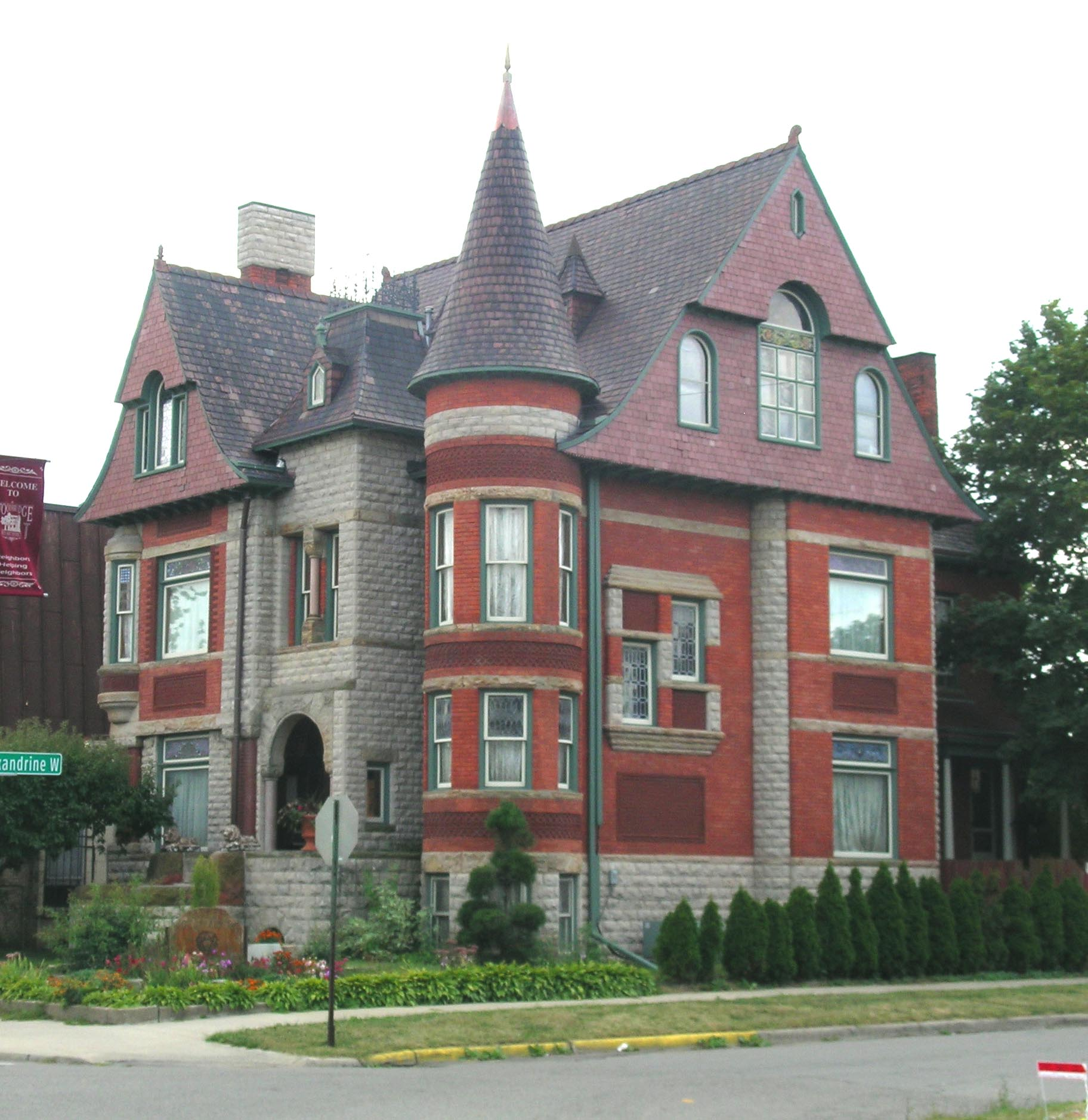 Hunter House, Woodbridge, Detroit MI. A Michigan State Historic Site, Historic district contributing property to the Woodbridge Neighborhood Historic District, and on the National Register of Historic Places.